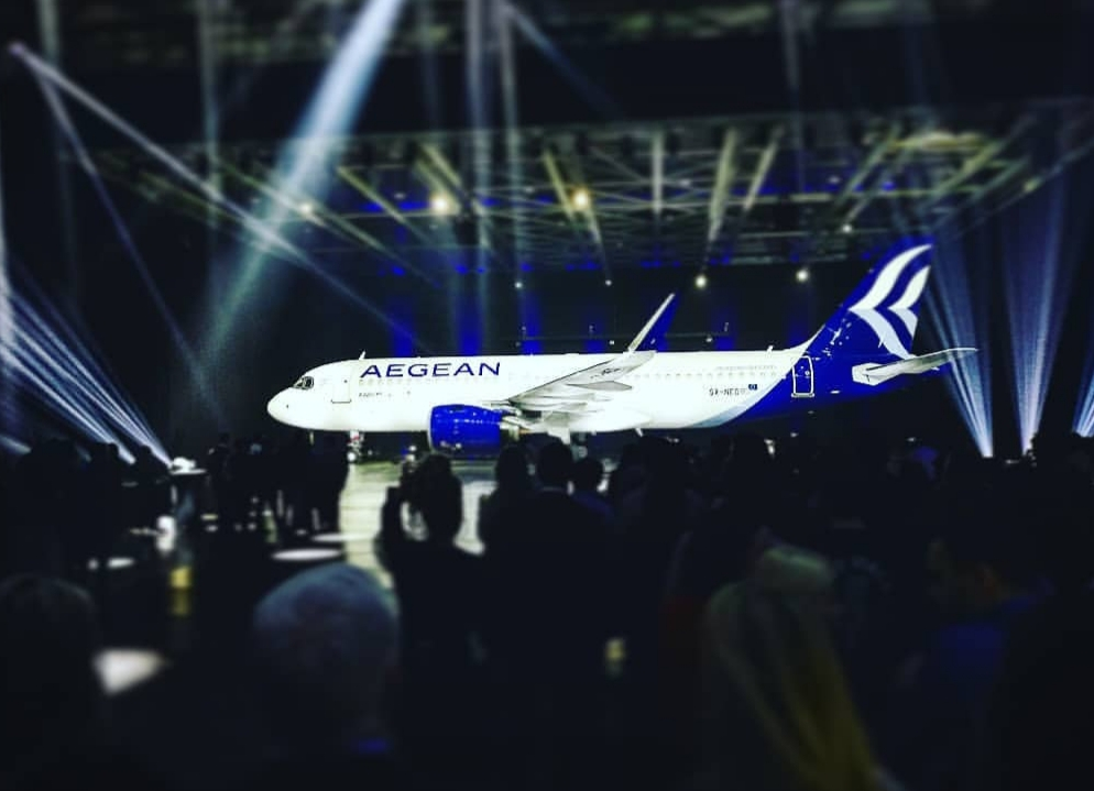 Aegean airlines new livery revelation during A320neo airbus receipt presentation